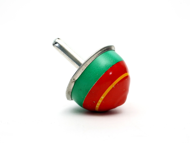 A top within the permanent collection of The Children's Museum of Indianapolis.